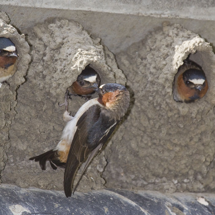 Cliff Swallows in Cayucos, California, USA. The nests were built on the bridge over Cayucos Creek.